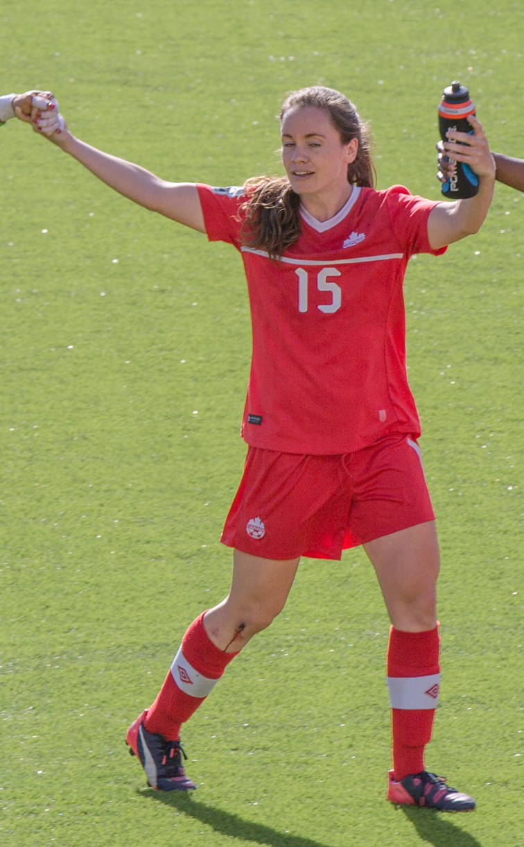 This file has been extracted from another file: FIFA Women's World Cup Canada 2015 - Edmonton (18573327925).jpg